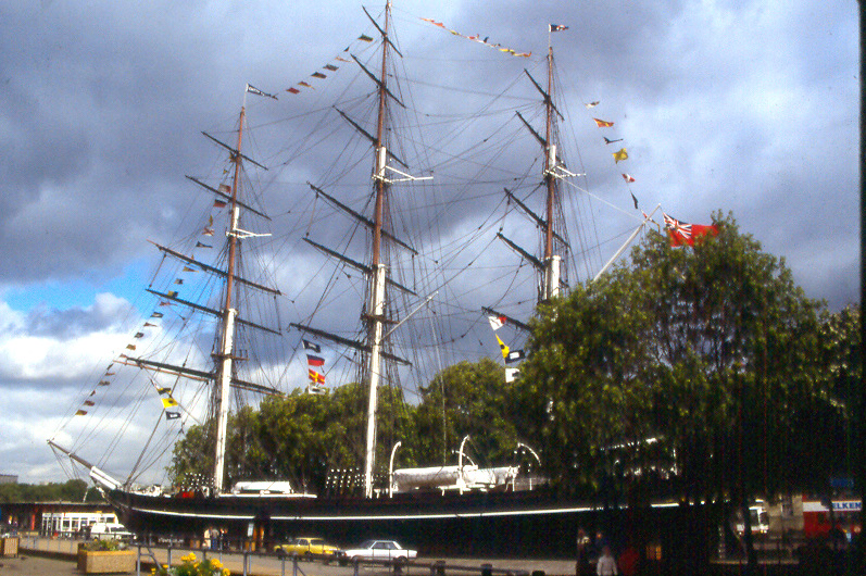 The Cutty Sark in 1987, before fire. Photo taken: October 8, 1987 in Cubitt Town, London, England, GB.